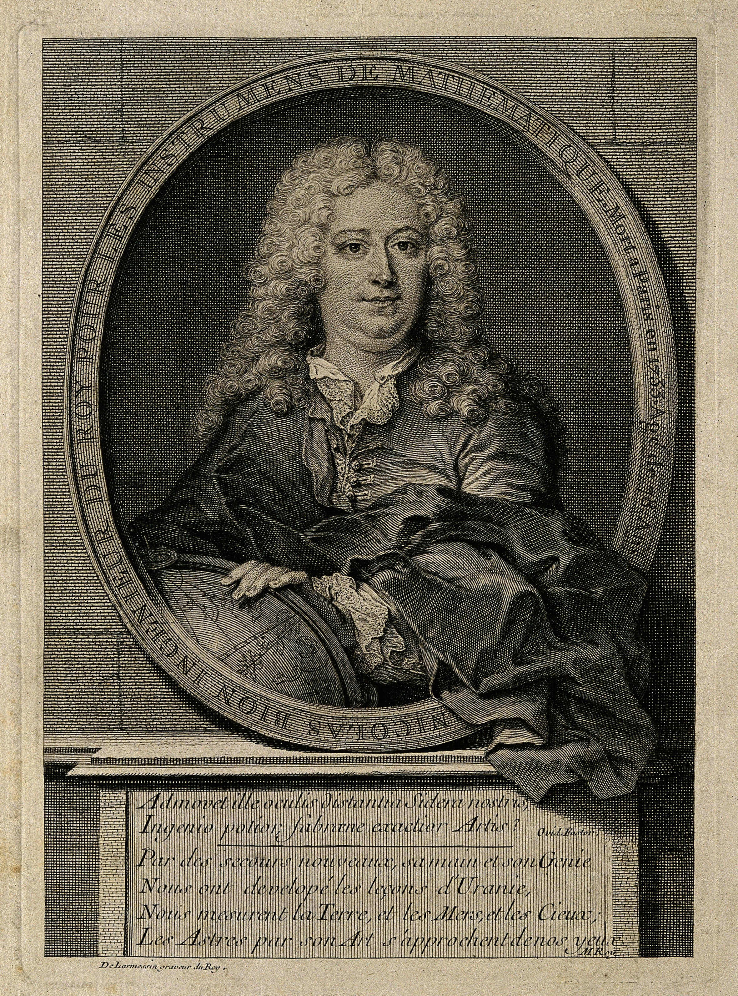 Nicolas Bion. Line engraving by N. de Larmessin. Iconographic Collections Keywords: portrait prints; bion, nicolas, 1652-1733; Nicolas de Larmessin; engravings; Nicolas Bion